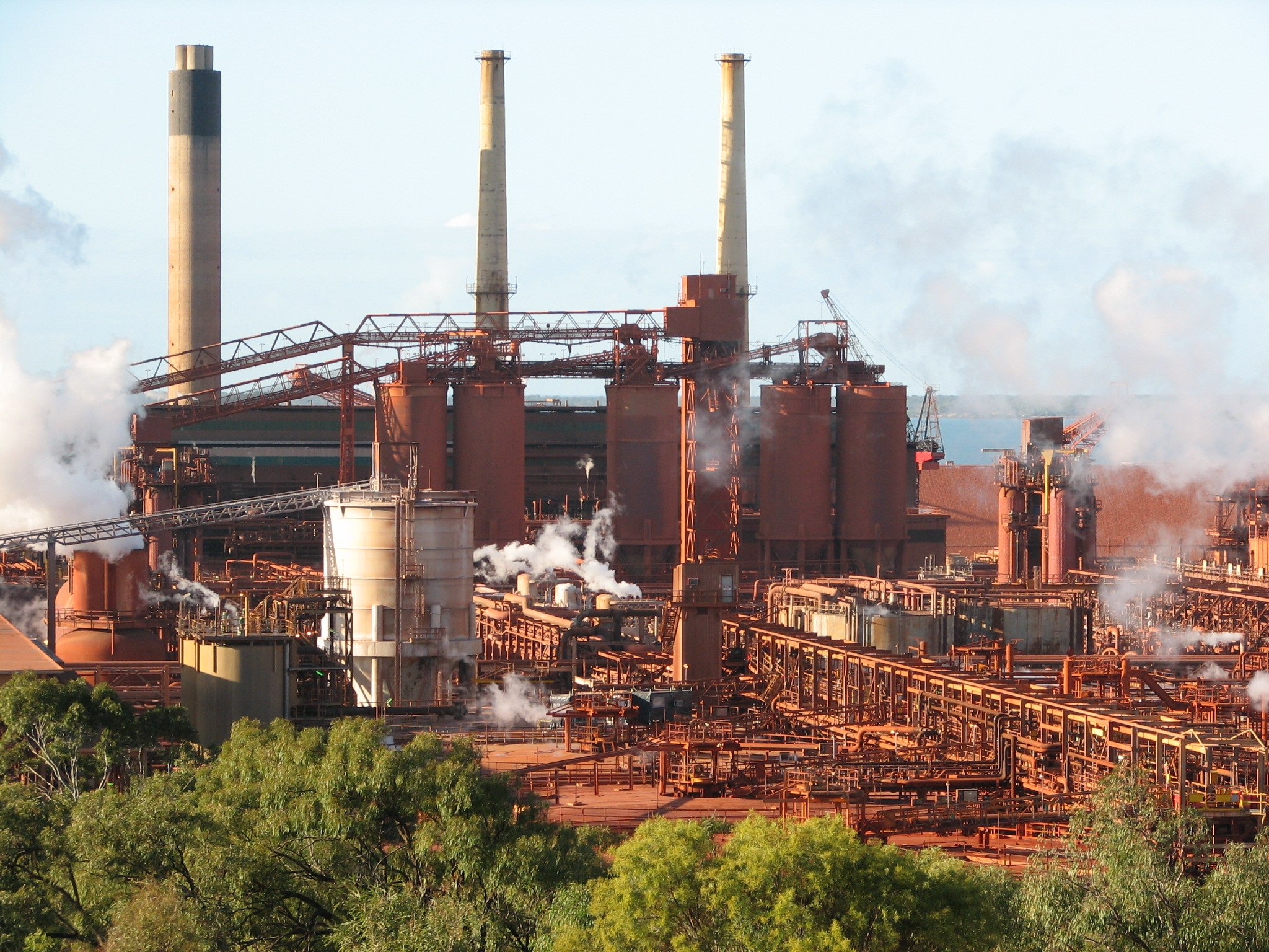 Qld Alumina Refinery (QAL) in Gladstone, Central Queensland, Australia